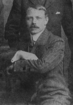 Herbert John Pitman, Third Officer of the RMS Titanic